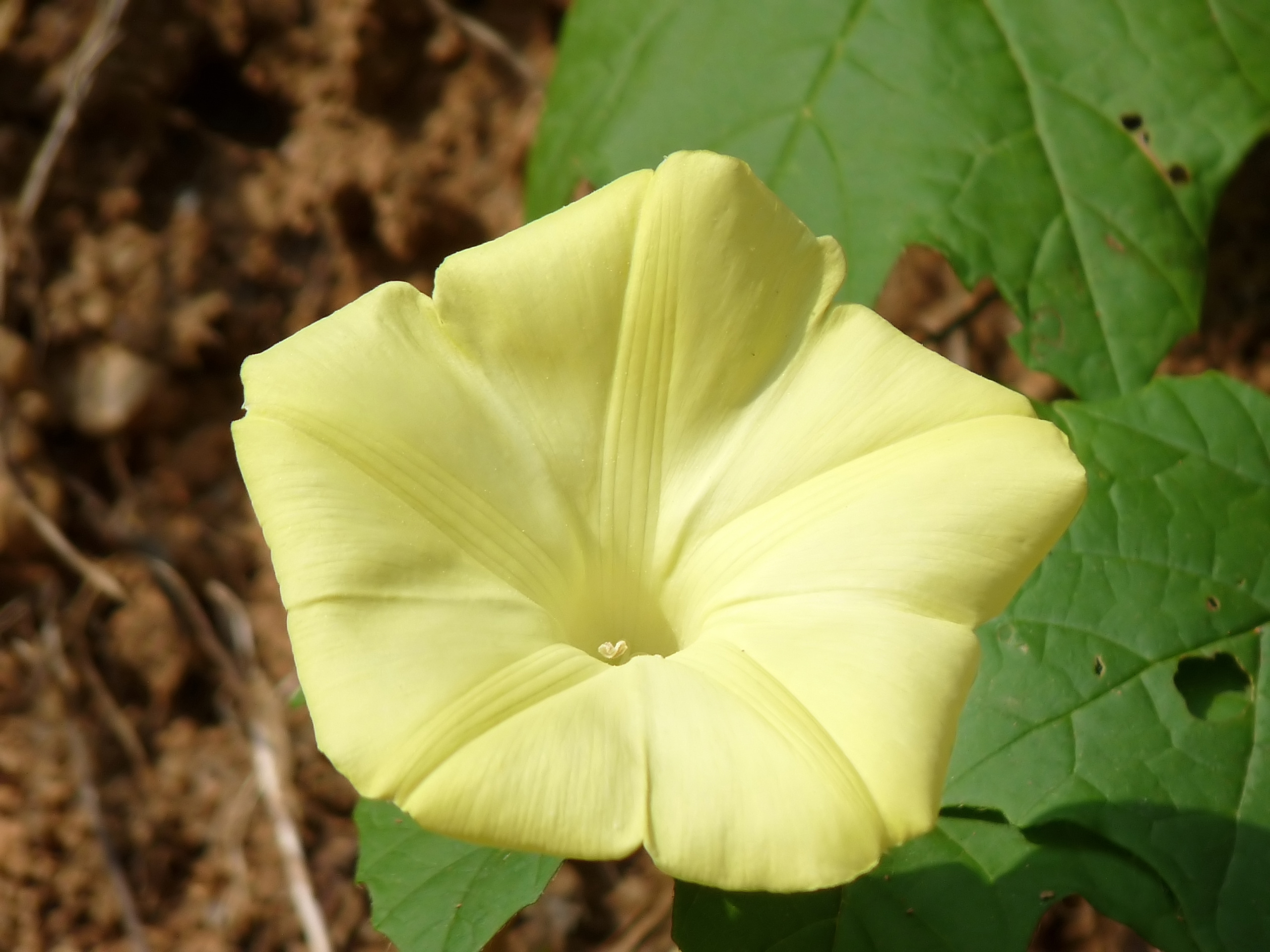 Merremia vitifolia, Grape-leaf Wood Rose is large twinning or prostrate herb. The stems are purplish when old, and grow to 4 m long. Leaf blade is circular in outline, 5-18 by 5-16 cm, cordate at the base, palmately 5-7-lobed. Flower-buds narrow-ovoid, acute. Flower tube is funnel shaped -6 cm long, glabrous, bright yellow, paler towards the base. Anthers spirally twisted. Found both in regions with a feeble and in those with a rather strong dry season, in open grasslands, thickets, and hedges, along fields, in teak-forests, along edges of secondary forests, on river-banks and waysides. Grape-leaf Wood Rose is native to India and Sri Lanka to Indo-China and the Andamans, throughout Malaysia. Taken at Aanakkulam, Kerala, India.